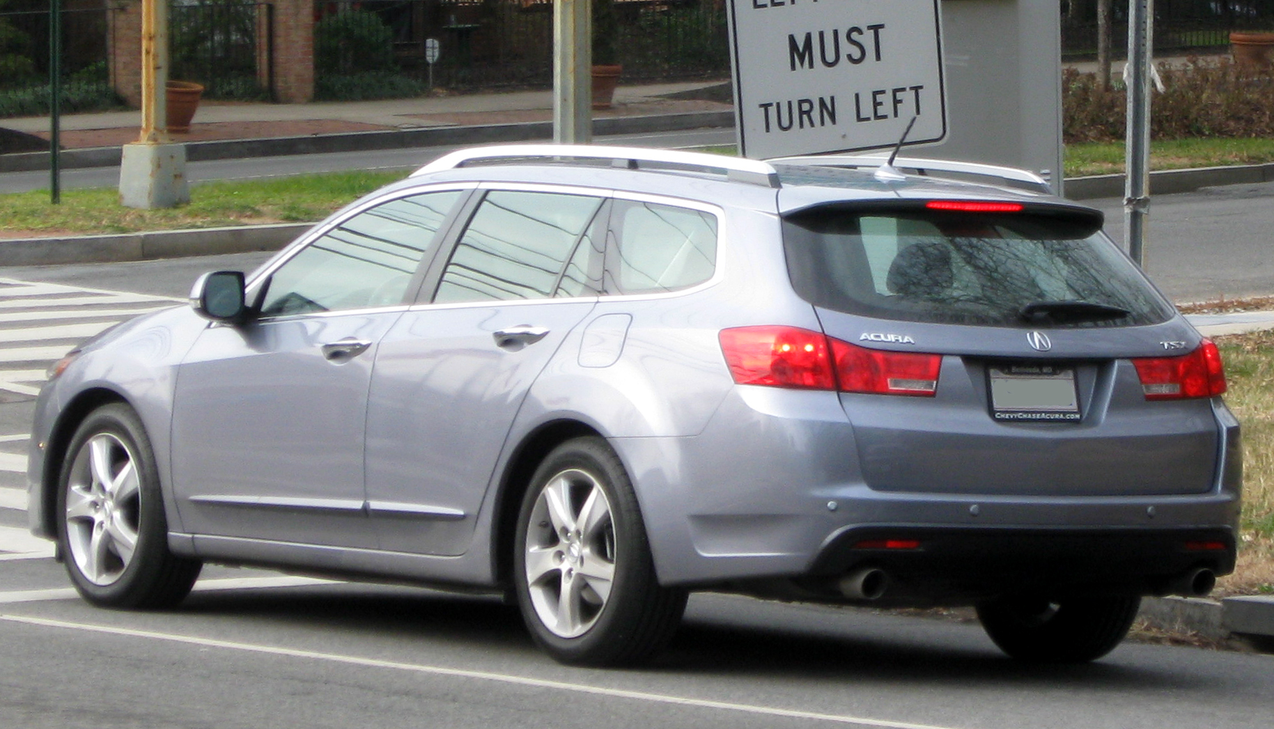 2011-2012 Acura TSX photographed in Washington, D.C., USA.